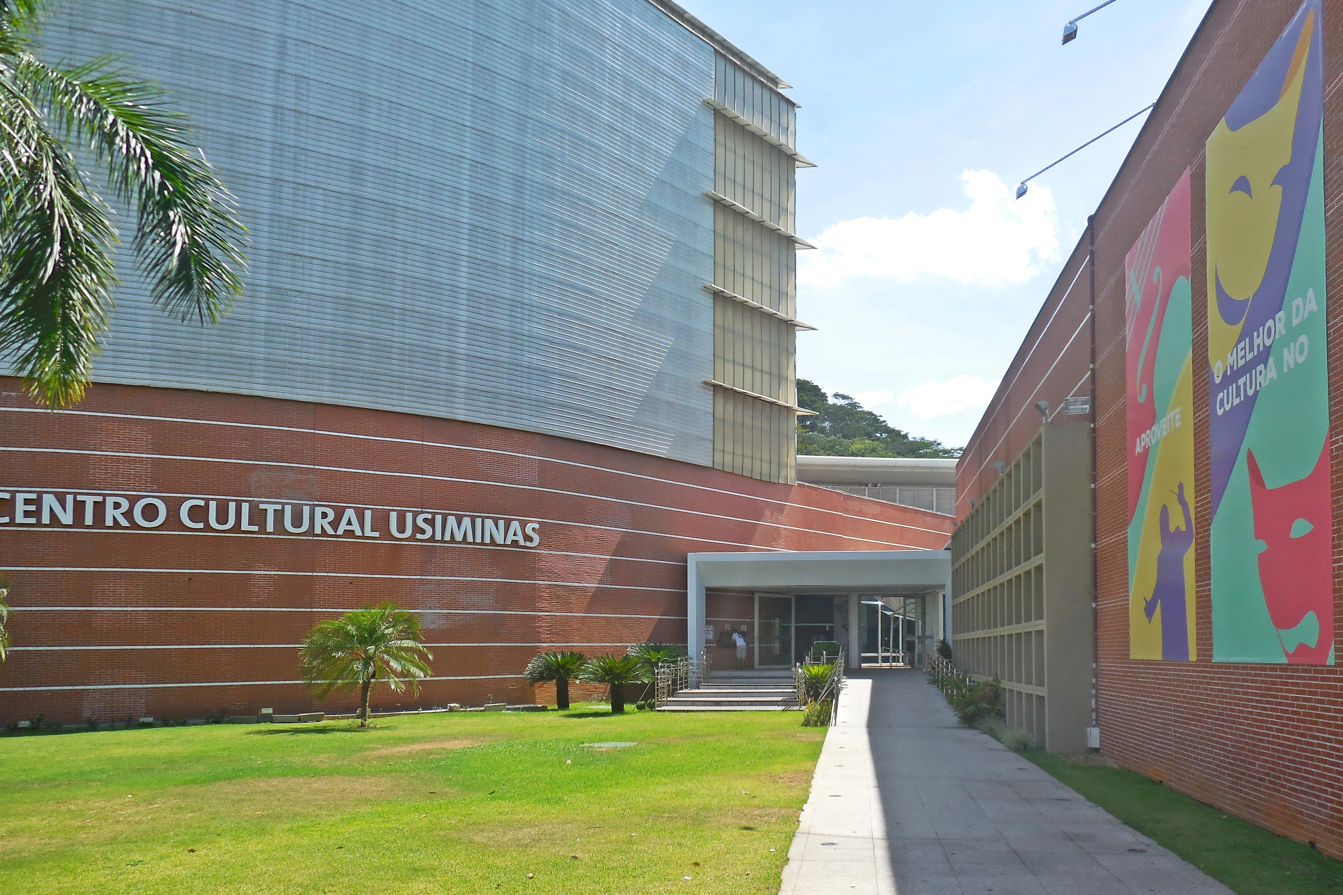 Entrance of the Centro Cultural Usiminas (Usiminas Cultural Center), in Ipatinga, Minas Gerais, Brazil.